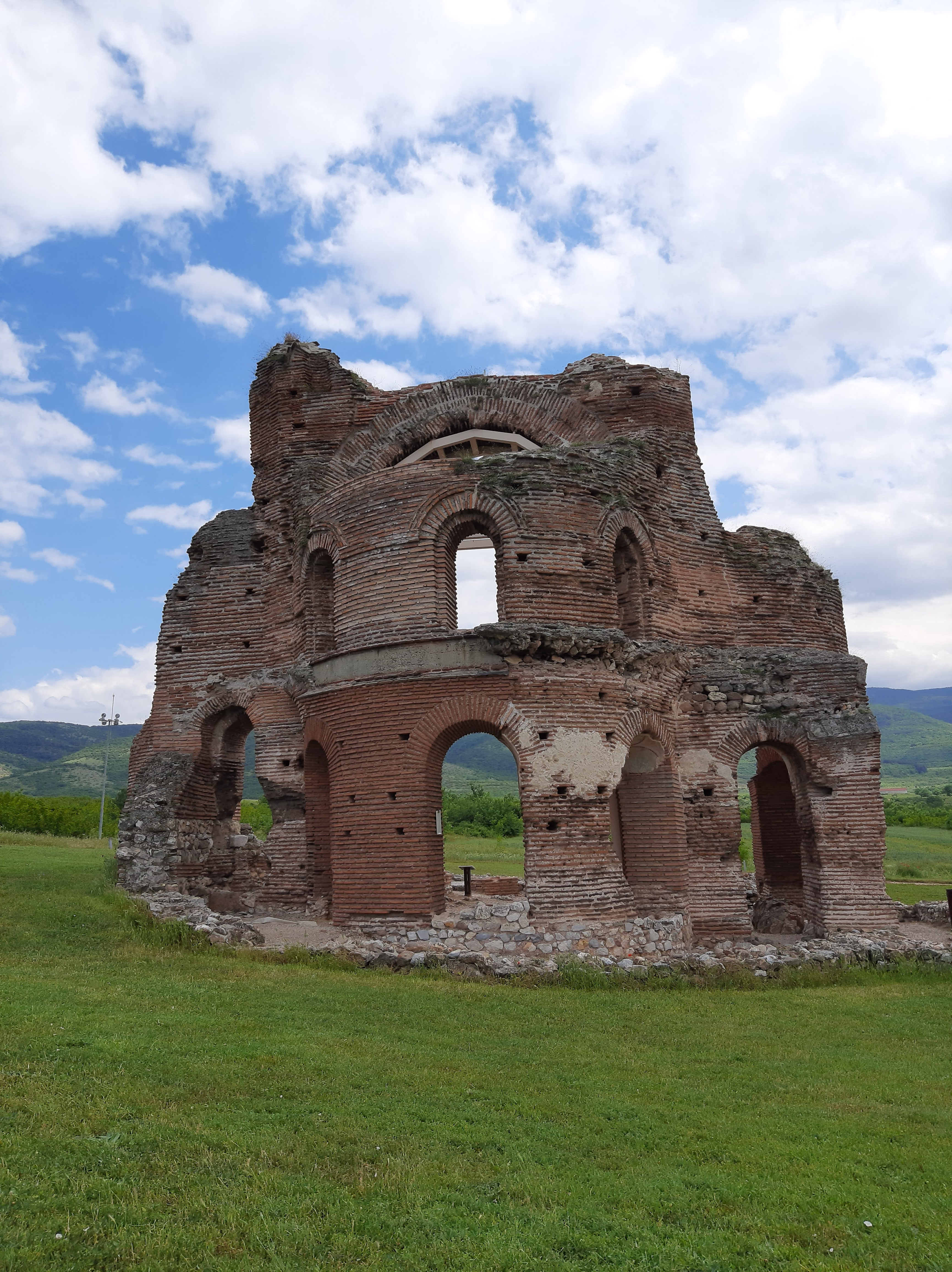 Red Church in Perushtitsa, Bulgaria